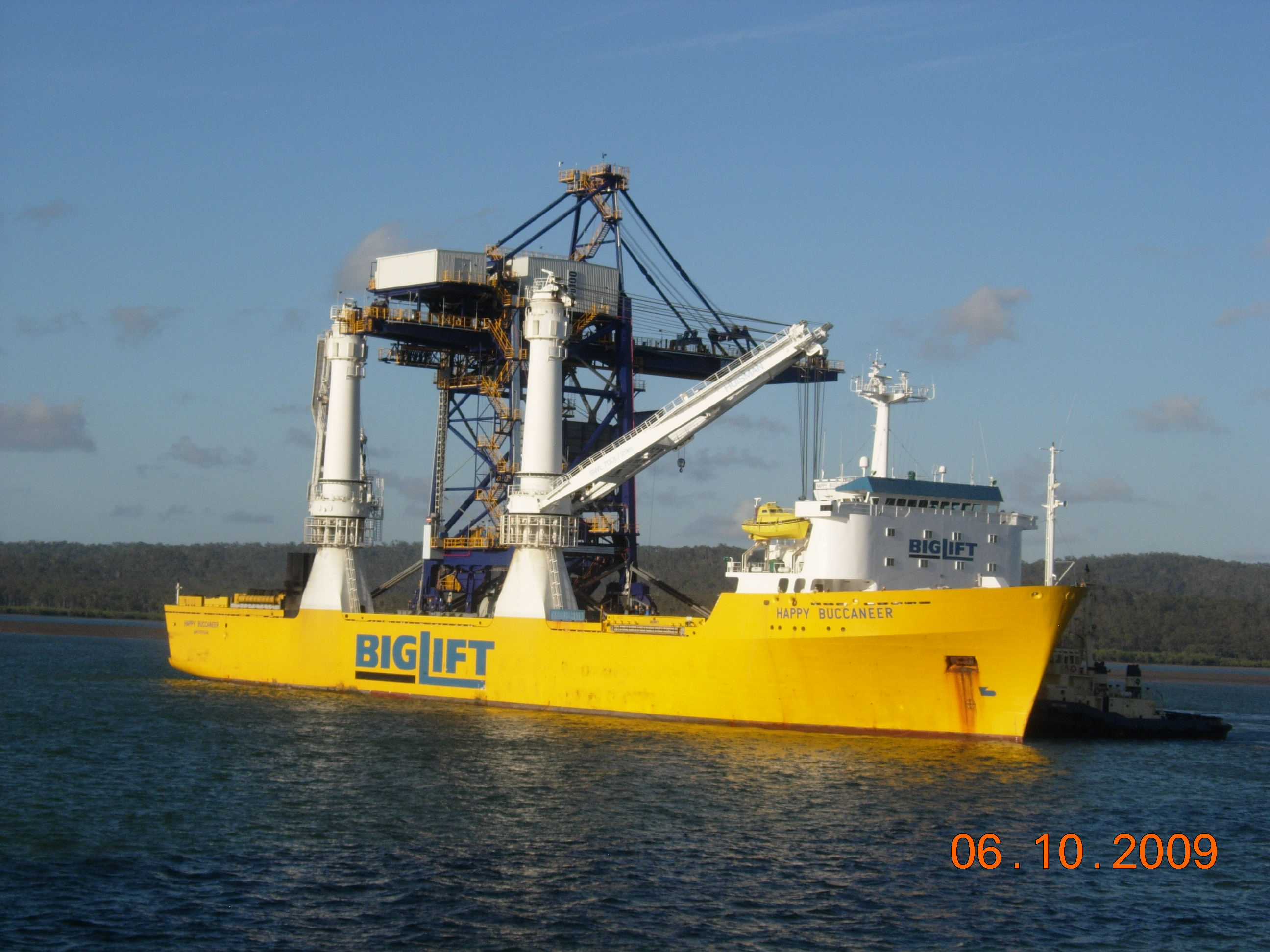 Happy Buccaneer transporting Ship unloader IMO Number: 8300389 MMSI Number: 244203000 Callsign: PEND Length: 146 m Beam: 31 m Information about Happy Buccaneer may be found at IMO 8300389. A ship can change name and flag state through time, but the IMO number remains the same through the hull's entire lifetime. As a result, it can be useful to identify a ship by using the IMO number.